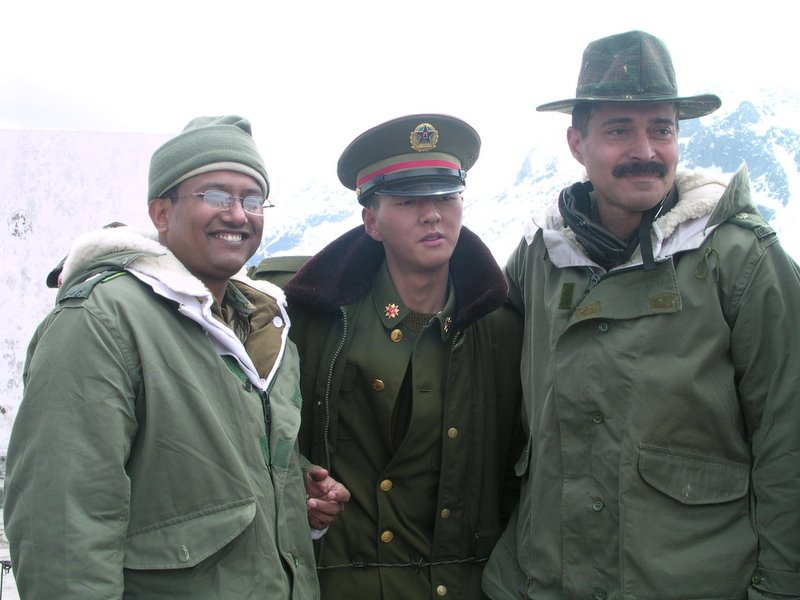 Indian and Chinese commanders at Nathu La pose together.